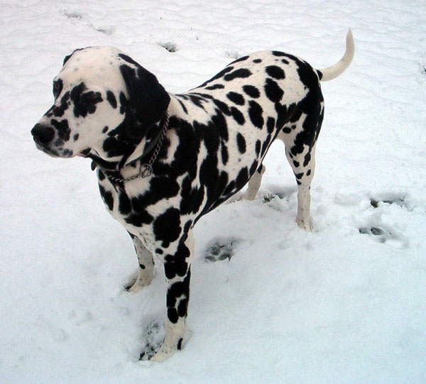 Dalmatian companion.